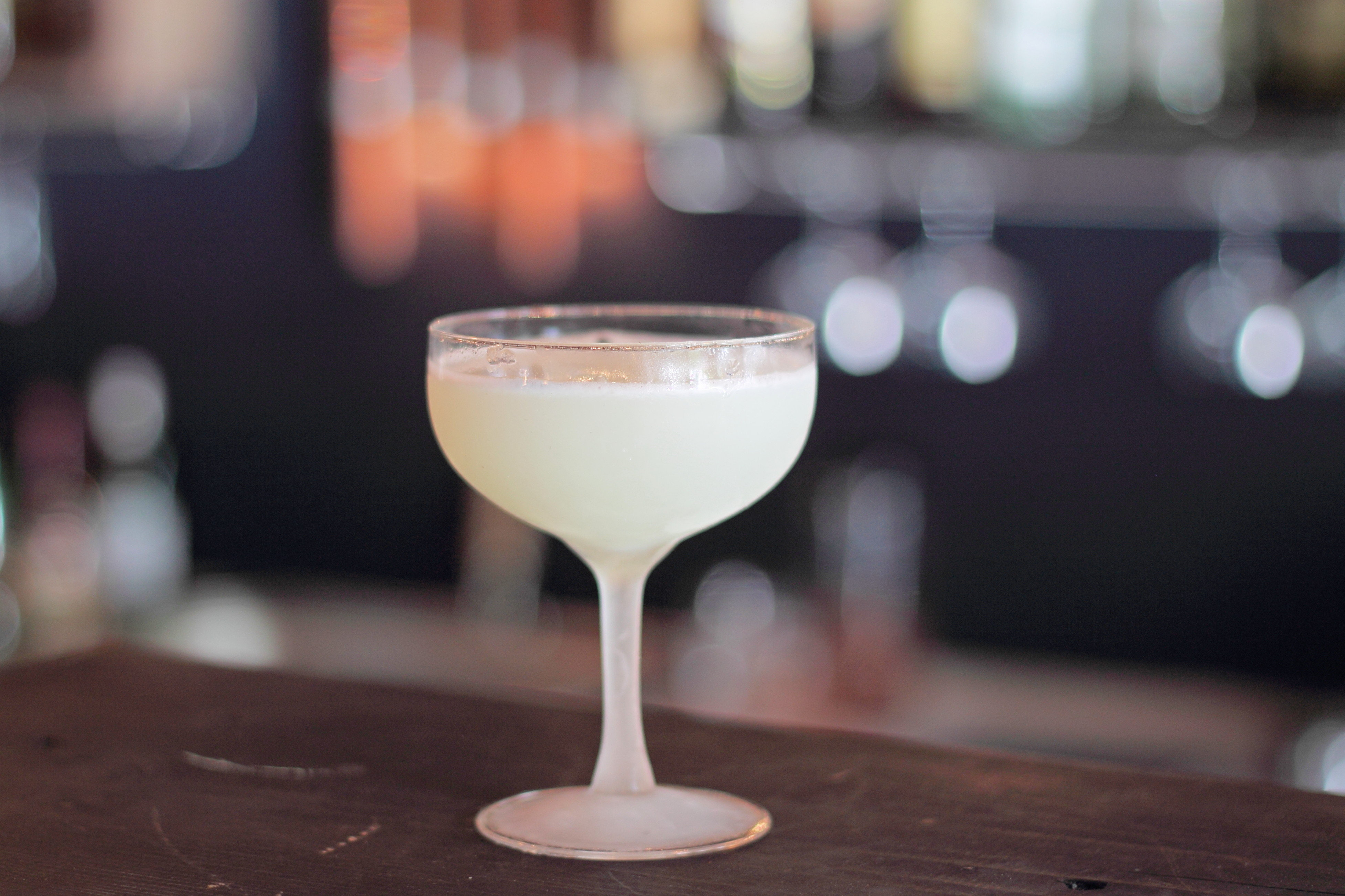 White Lady cocktail.